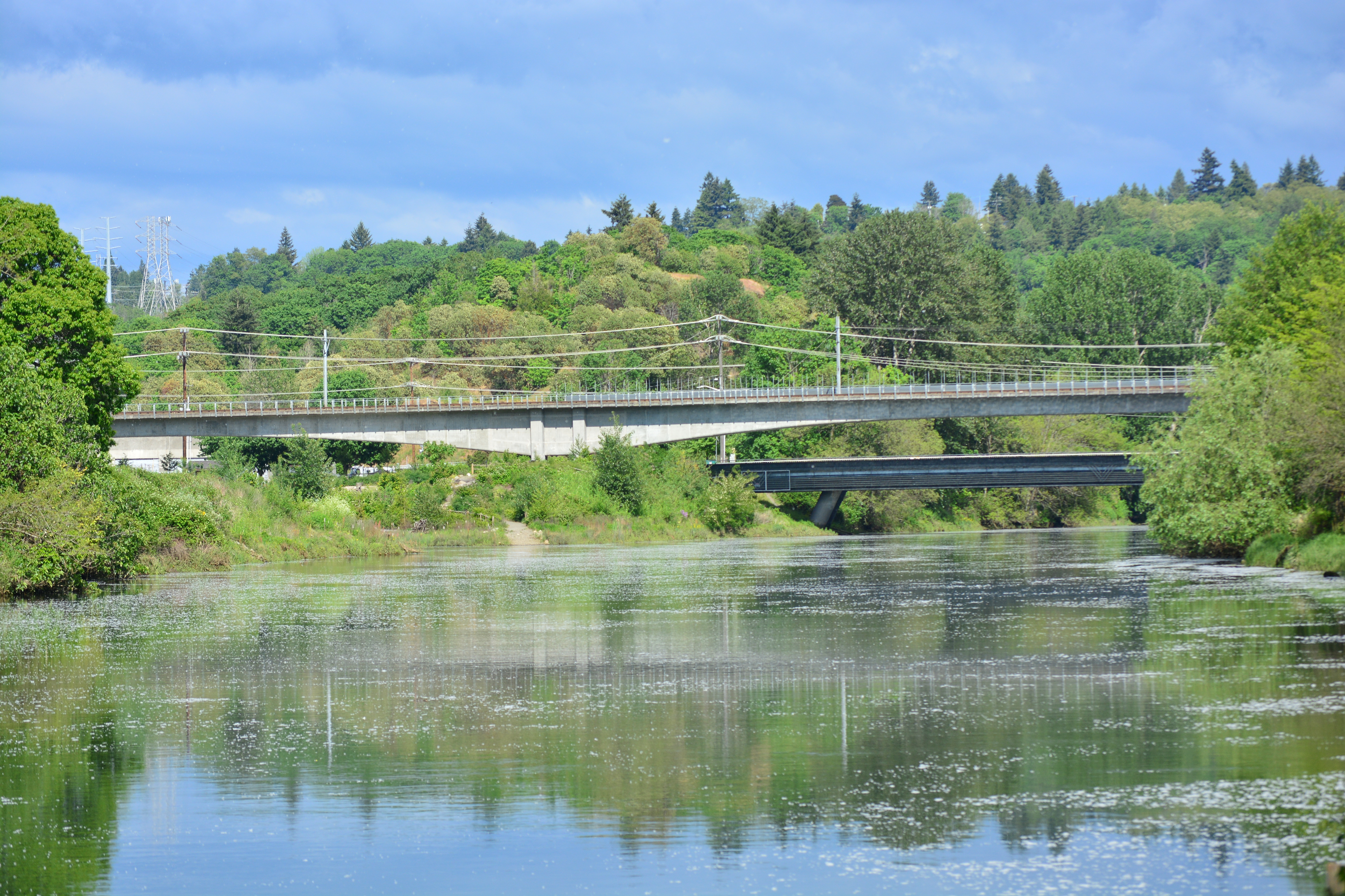 Sound Transit Link Light Rail crosses the upper Duwamish River, Tukwila, Washington, just east of Tukwila International Boulevard. The low bridge carries East Marginal Way S. This portion of the river runs east-west roughly along the line that would constitute S. 116th Street. Seen from Tukwila International Boulevard, where the Green River Trail crosses the river.